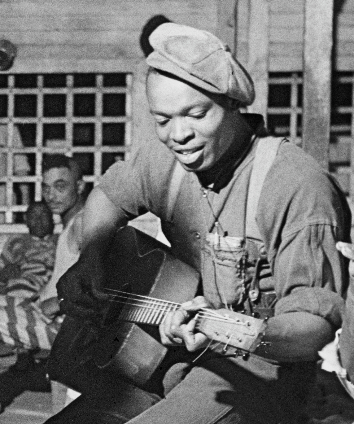 "In the convict camp in Greene County, Georgia", 1941. Blues musician Buddy Moss playing guitar.